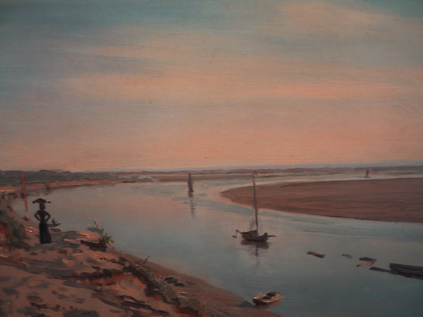 Painting from Nymindegab by Laurits Tuxen. He was the first painter to arrive at Nymindegab and later followed Holger Drachman before the both of them went on to Skagen to besome part of the much more famous artists colony there.